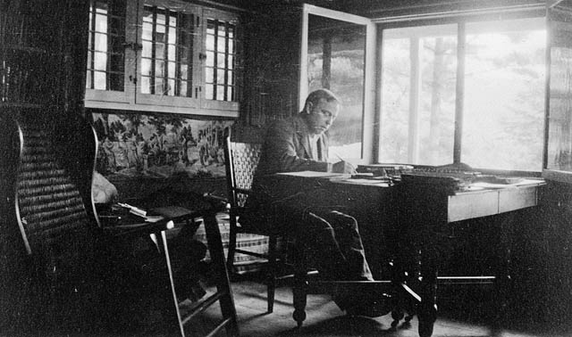 W.L. Mackenzie King writing the book Industry and Humanity